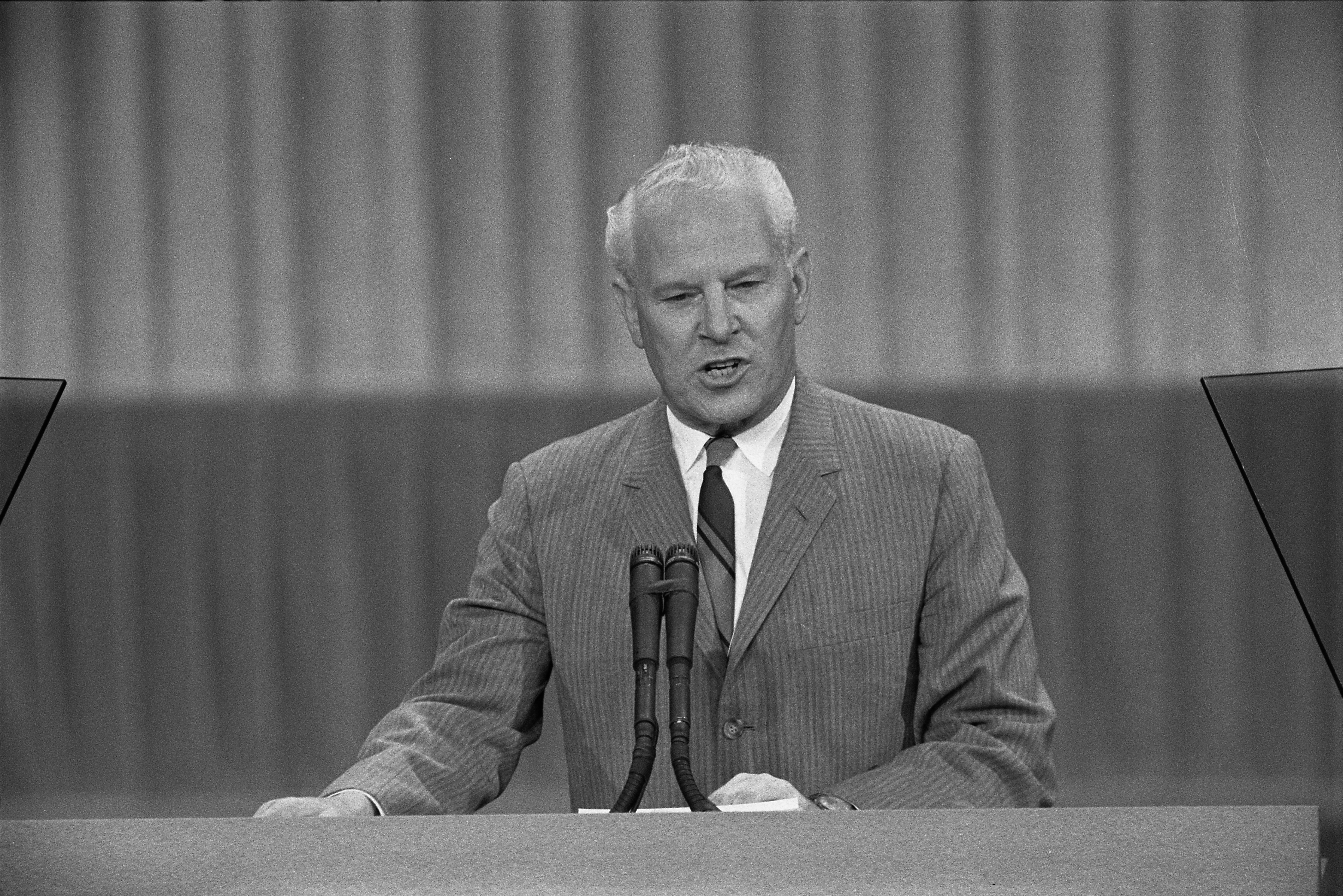 Albert Gore Sr. speaking during the third session of the 1968 DNC